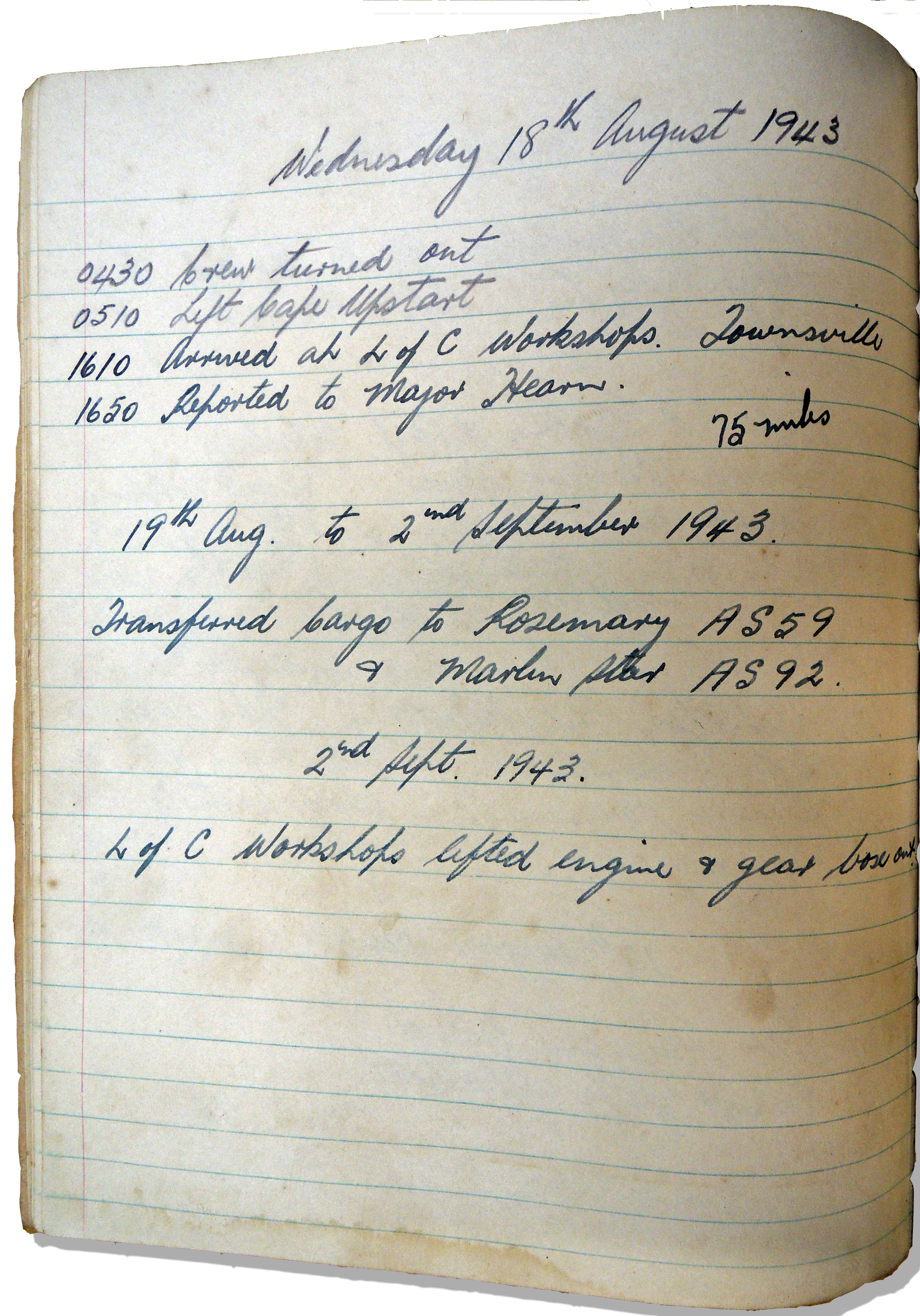 1943 extract from the Australian Army's small ship Bremer's (AM81)logbook.